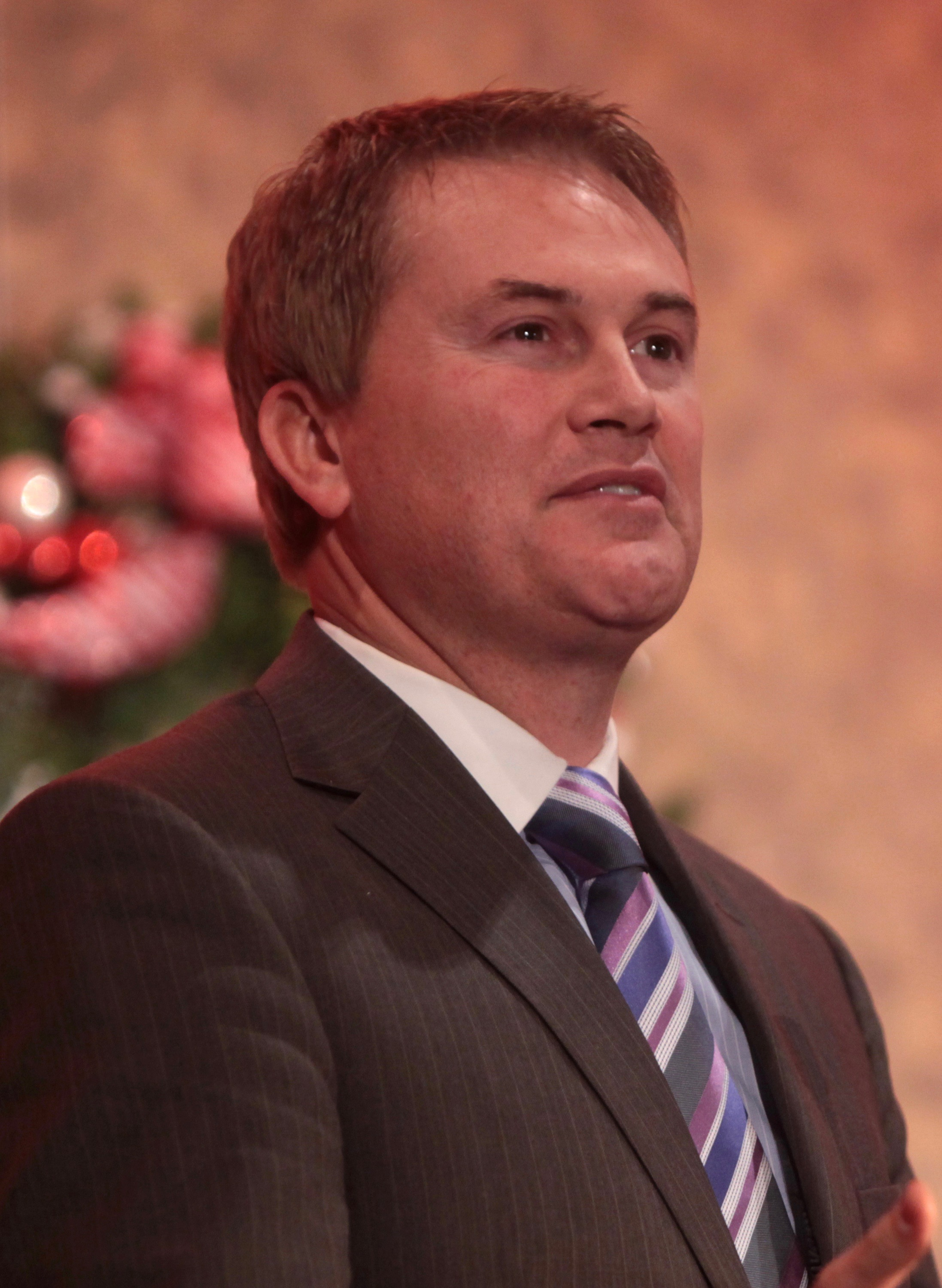 Agriculture Commissioner James Comer speaking at the 2014 Boone County Republican Party Christmas Gala at the Receptions Banquet Center in Erlanger, Kentucky.